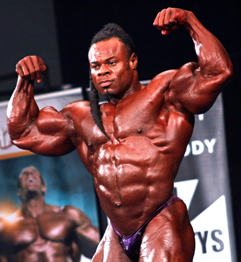 Will Smith 2009 IFBB Australian Pro Grand Prix IX